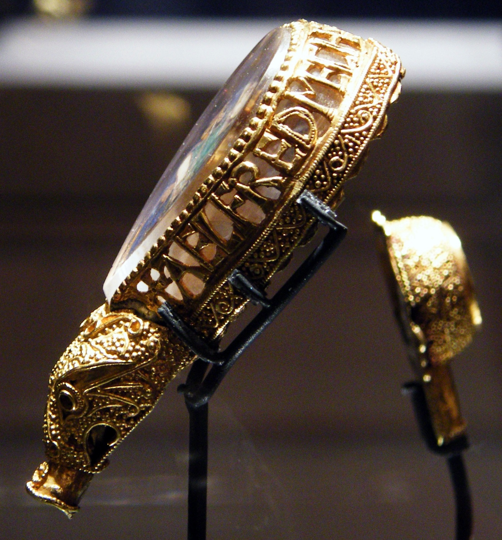 The Alfred Jewel, a piece of ninth-century Anglo-Saxon jewellery in the Ashmolean Museum, Oxford